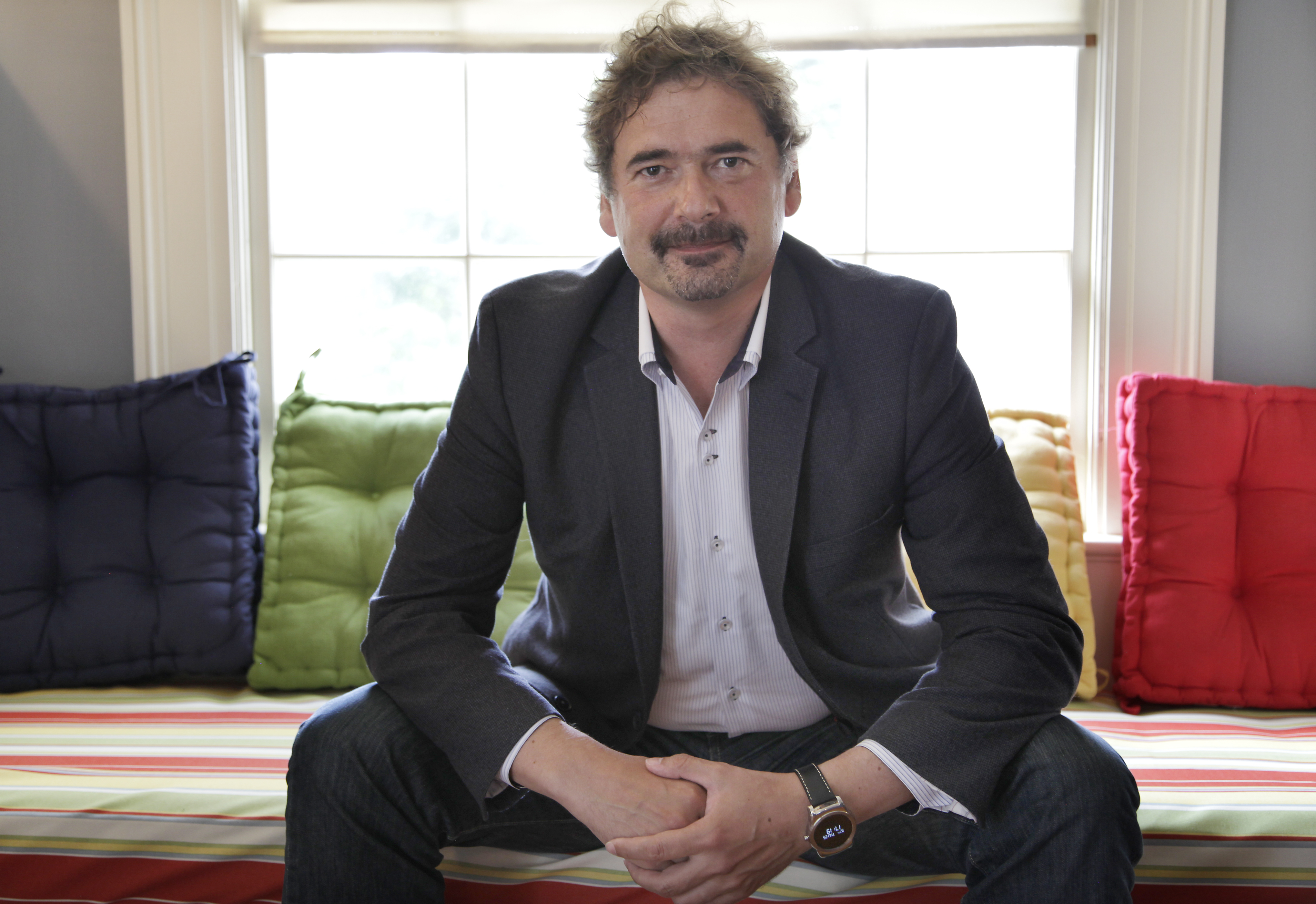 Jon von Tetzchner, former Co-founder of Opera Software. Today entrepreneurs and Co-founder / CEO of Vivaldi Technologies.